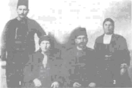 Dimitar Dakov with his wife Gergana from Seliolu